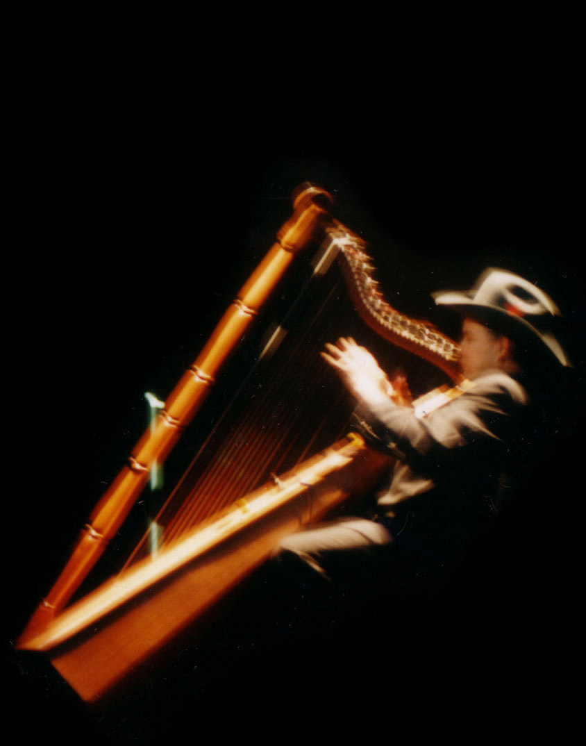 Dario Robayo (Dario Robards) playing the harp, folk instrument of the Colombian-Venezuelan llanos.